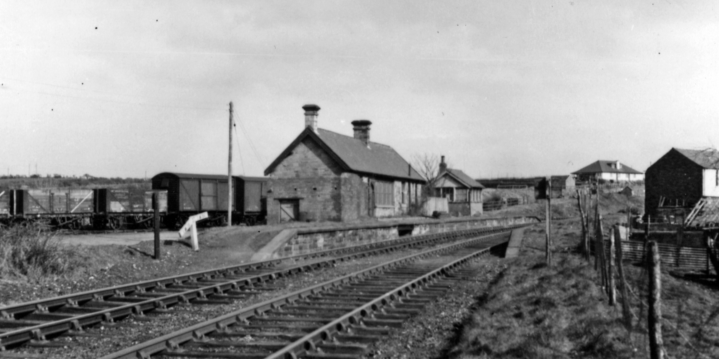 Seaton station, Cleator & Workington Junction Railway, 1951View eastward, towards Linefoot on branch to Workington Central; closed to passengers 2/22, goods 4/64.